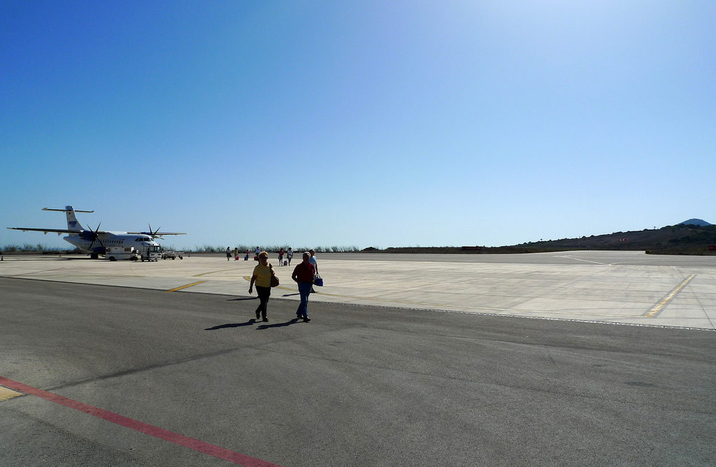 The airport of Pantelleria Island in Mediterrean